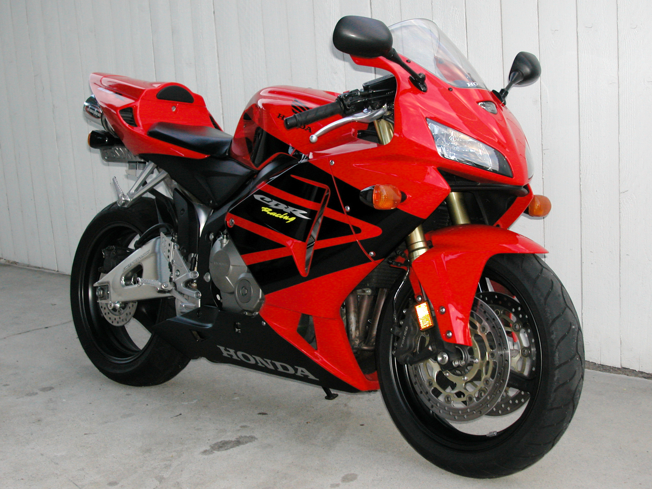 2006 Honda CBR600RR in red/black. Camera used was a Nikon Coolpix 5000.